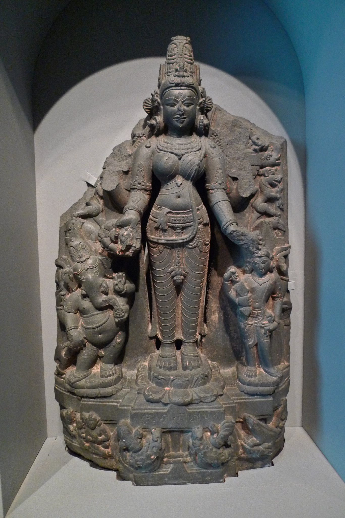 From the permanent collection of the Asian Art Museum in San Francisco.